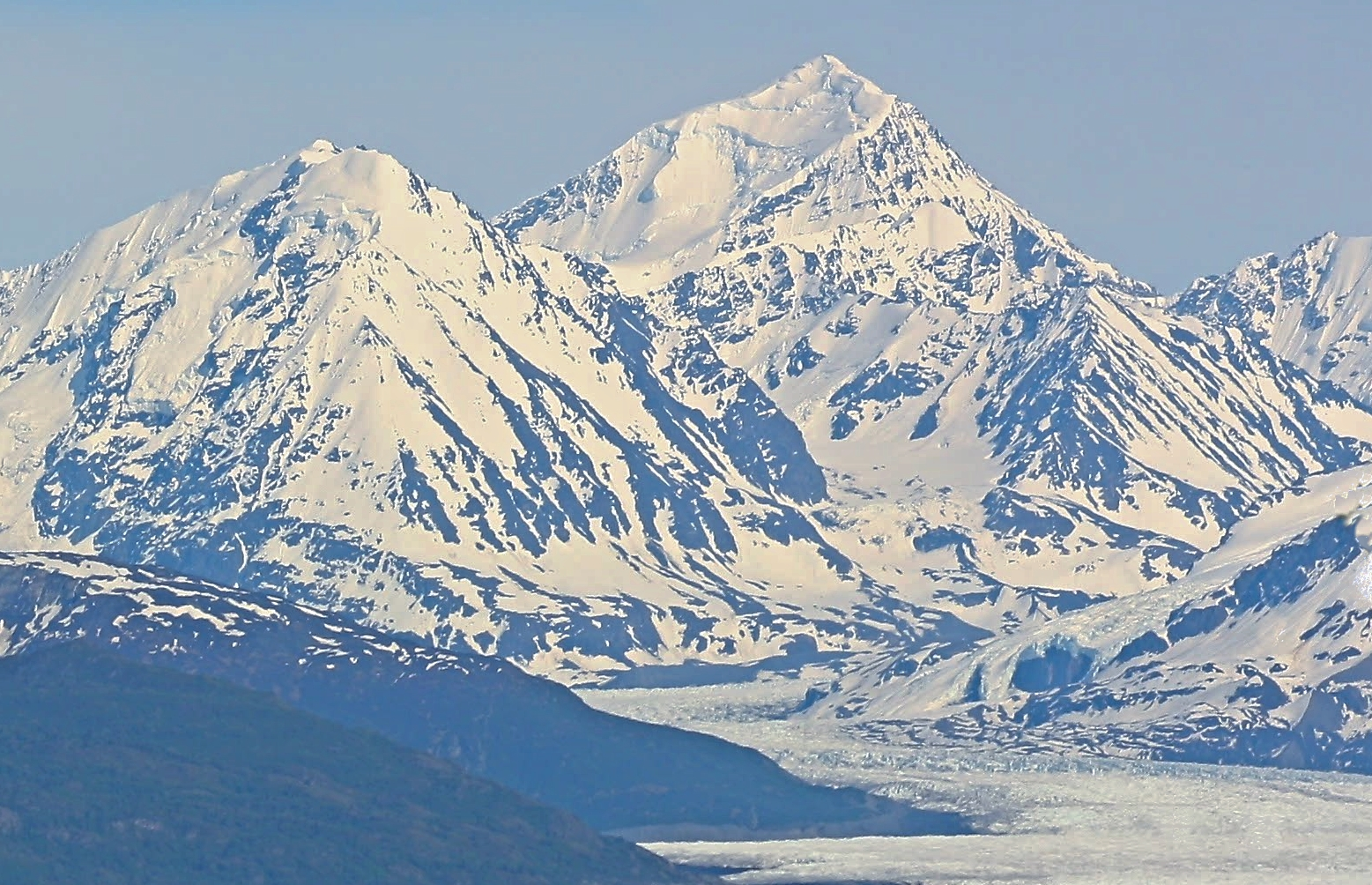 Mt. Goode